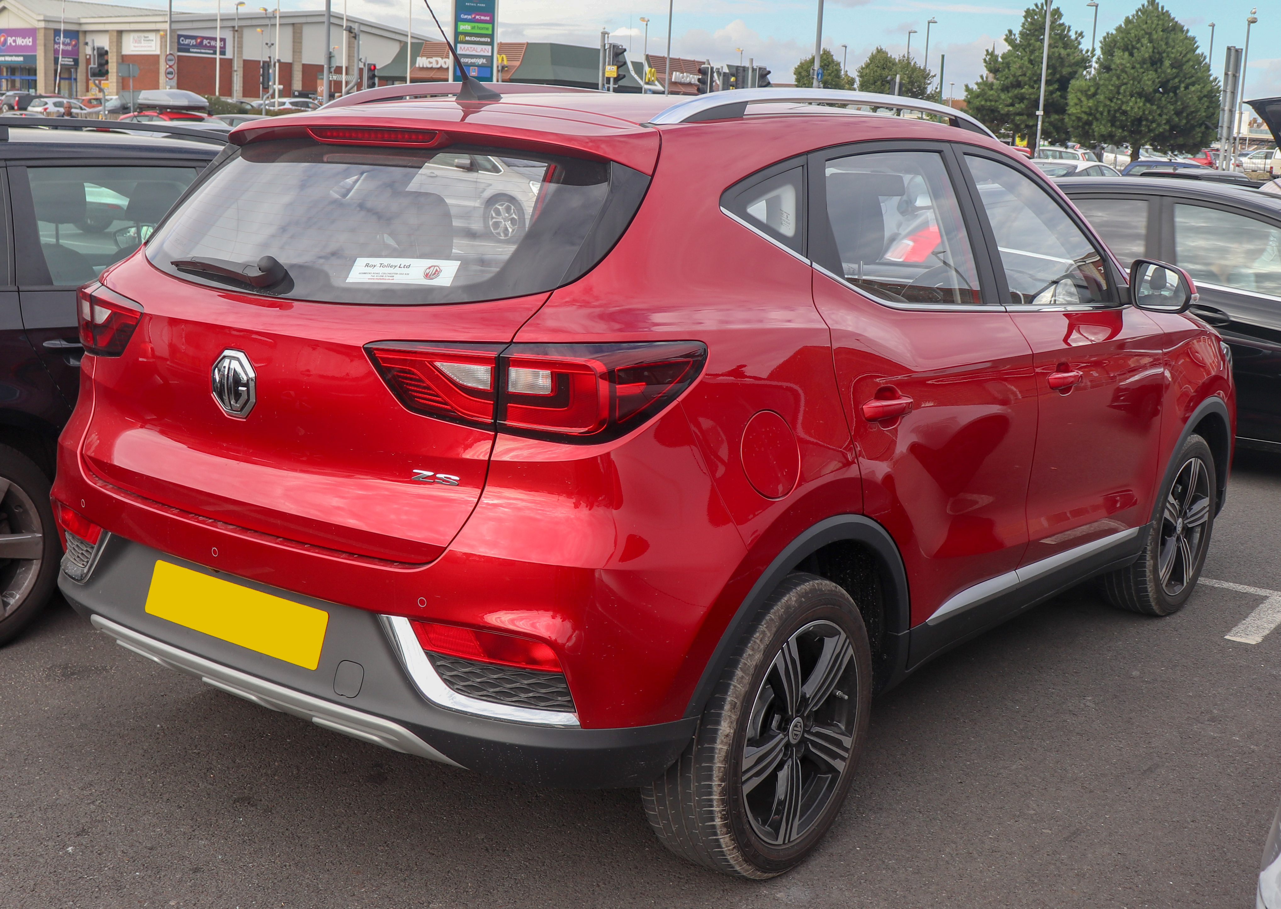 2018 MG ZS Exclusive 1.5 Rear Taken in Weymouth, Dorset